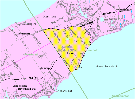 U.S. Census 2000 reference map for Laurel